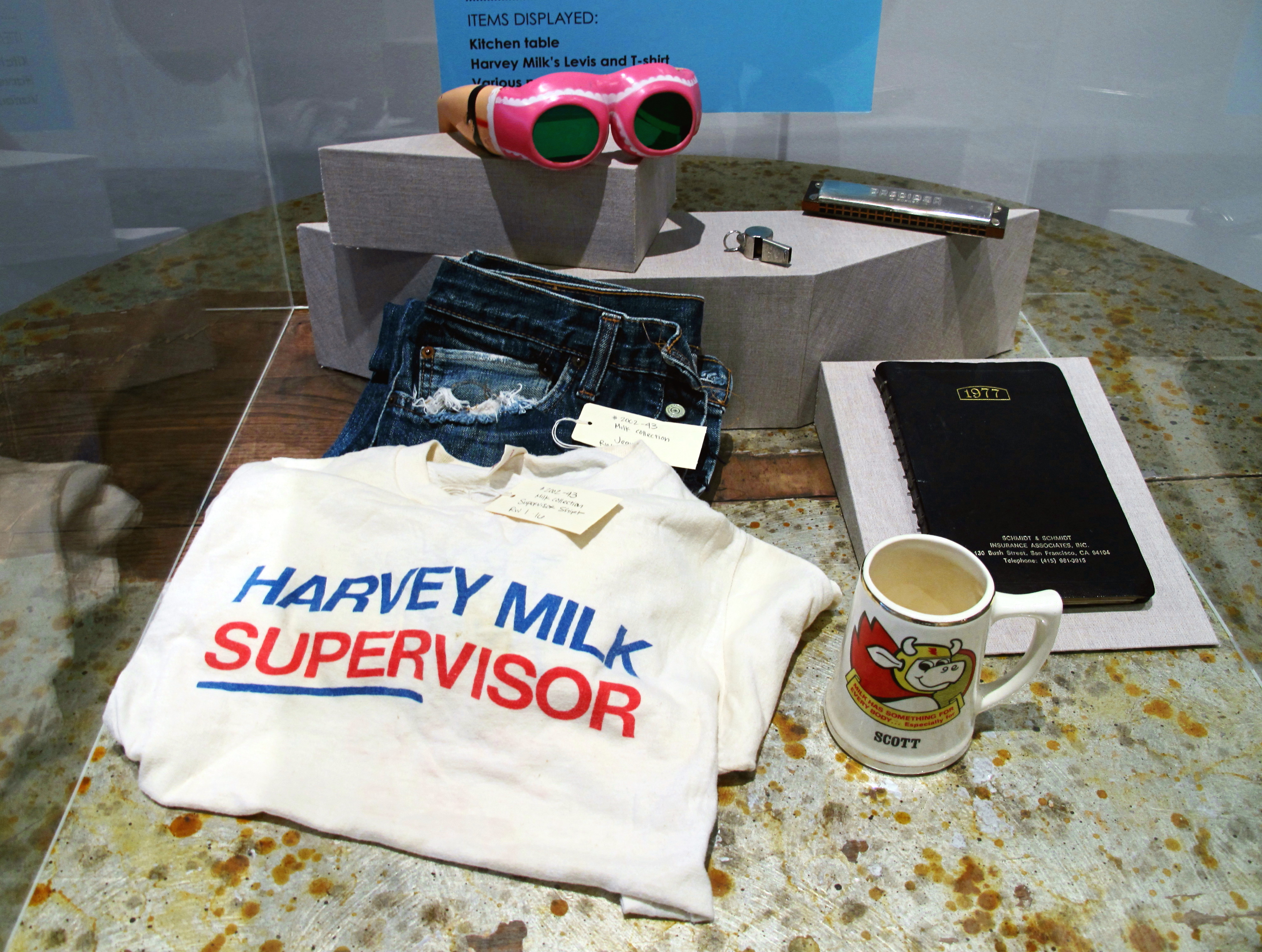 Personal belongings of Harvey Milk (1930-1978) on display during the preview of The GLBT History Museum in San Francisco's Castro District. The museum is a project of the GLBT Historical Society, an archives and research center to which the estate of Scott Smith donated Milk's belongings that were preserved after his death. Visible in the photo are Milk's battered, gold-painted kitchen table; a "Harvey Milk/Supervisor" campaign t-shirt; a pair of his Levi's jeans; his appointment book for 1977; his personal-safety whistle; his harmonica; and a pair of pink novelty sunglasses owned by Milk. Also on display is a mug owned by Scott Smith.